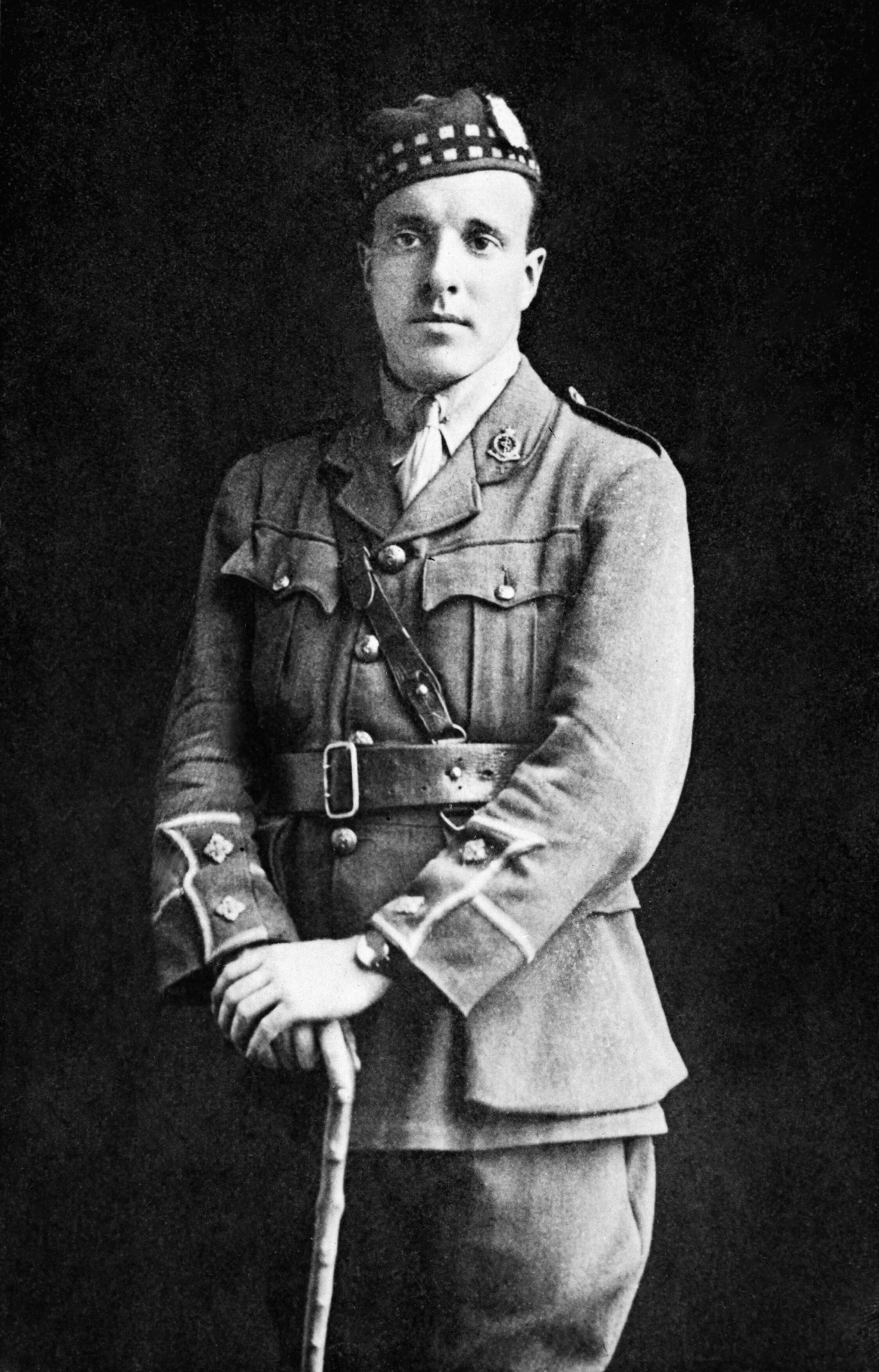 Victoria Cross Winners 1914 - 1918 Captain Noel Godfrey Chavasse VC and Bar MC of the Royal Army Medical Corps, attached to 1st/10th Battalion, The King's (Liverpool Regiment). Places and dates of deeds, France, 9 August 1916 and Bar to VC, Belgium, 31 July - 2 August 1917.